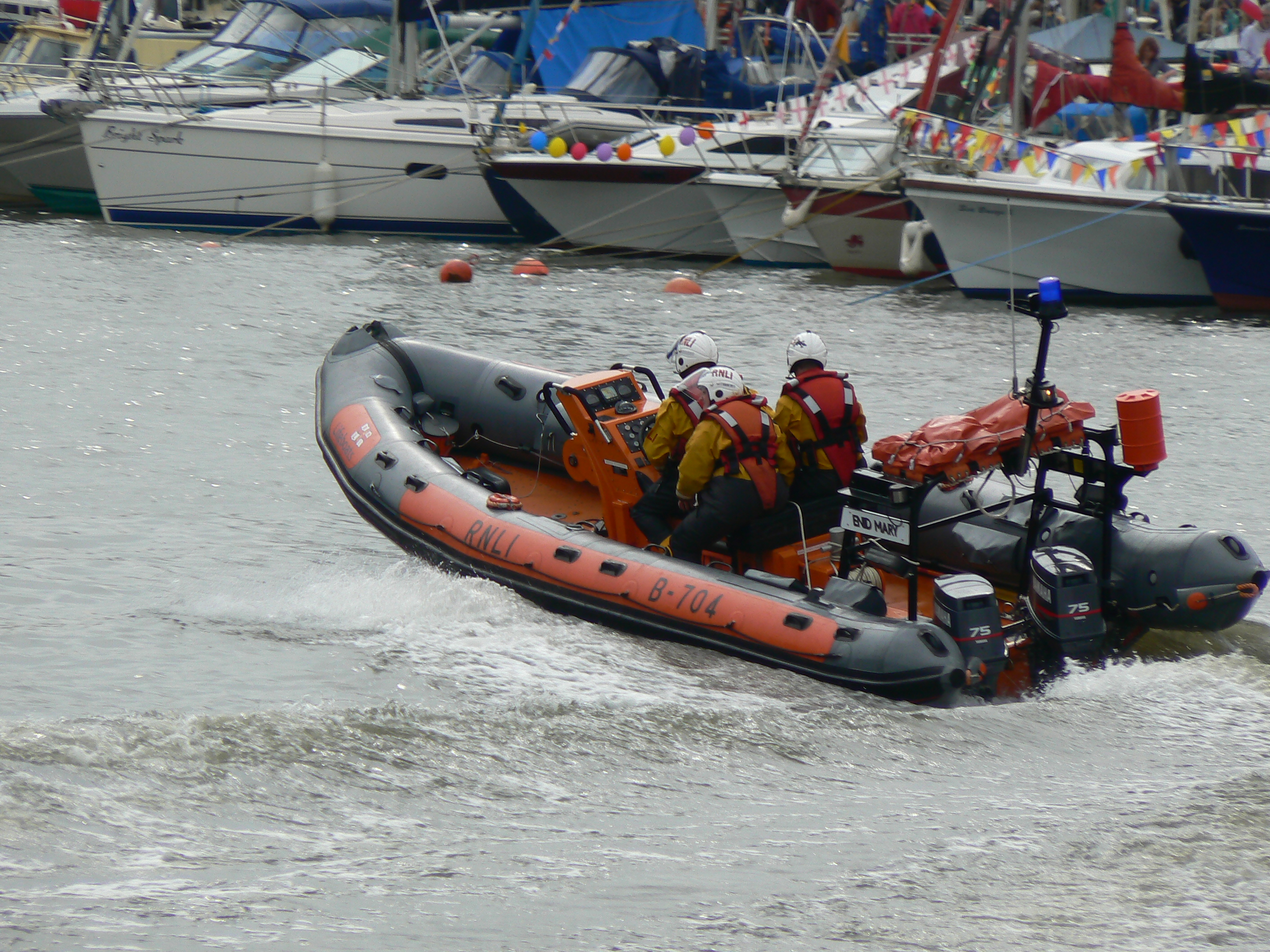 An RNLI atlantic class lifeboat performing demonstrations at the Bristol Harbour Festival